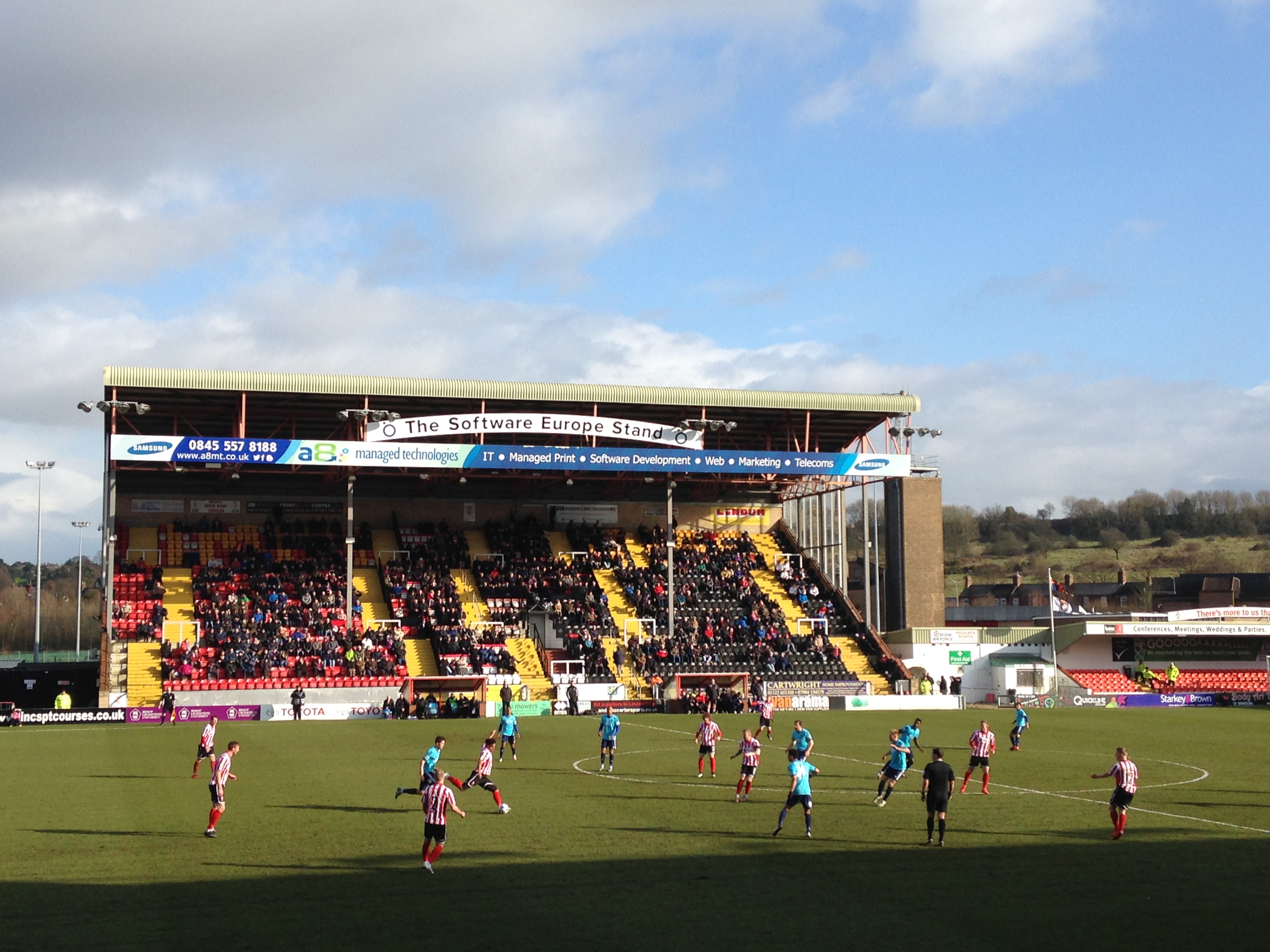 The Software Europe Stand at Lincoln City FC Sincil Bank Stadium